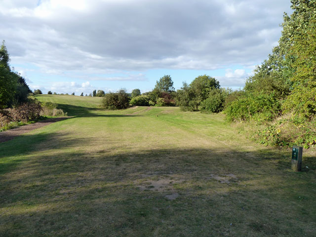 On the 7th tee, Hounslow Heath Golf Centre